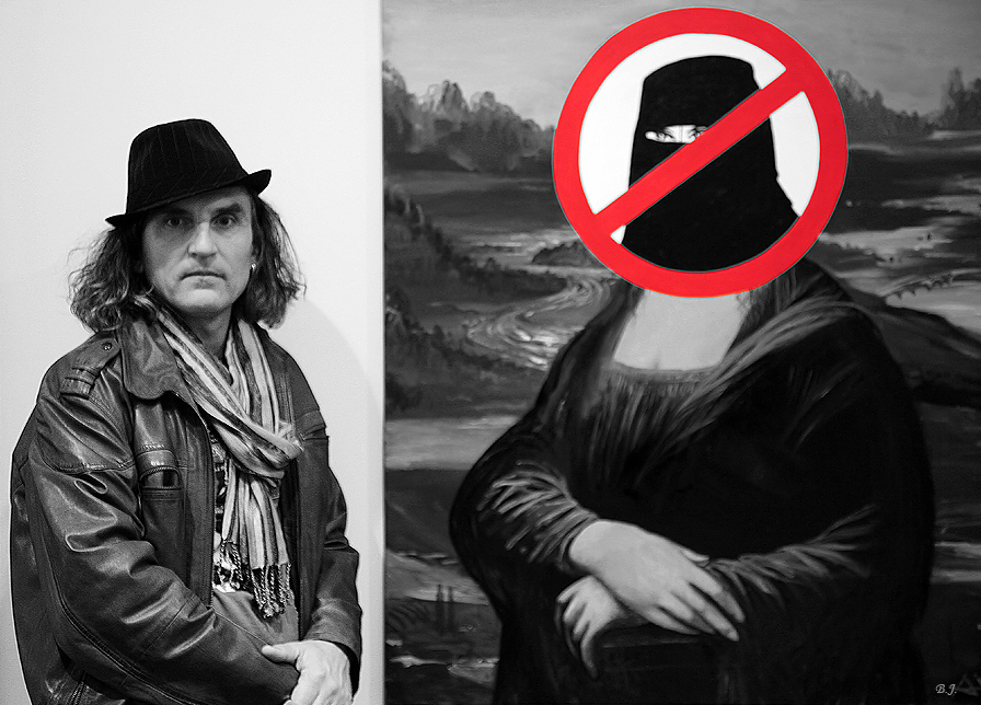 The Painter Igor Novikov besides his work "Miss Schweiz" (Miss Switzerland). 2010 in the Gallery Nadja Brykina, Zürich.